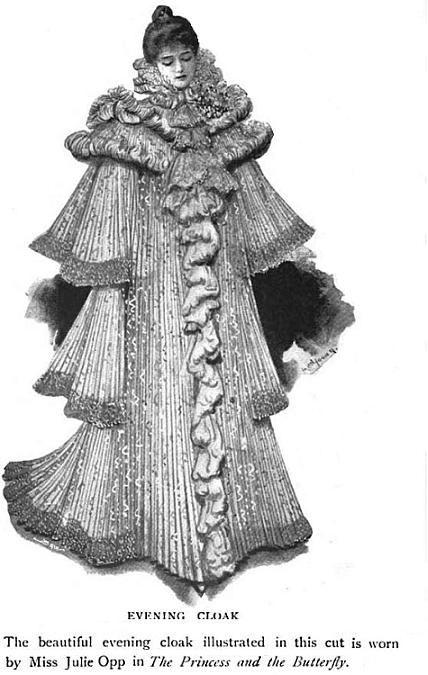 Gown worn by Julie Opp in the play "The Princess and the Butterfly."